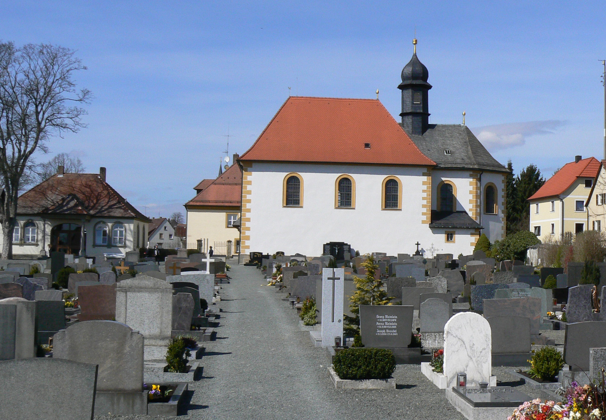 church in Hollfeld, Germany